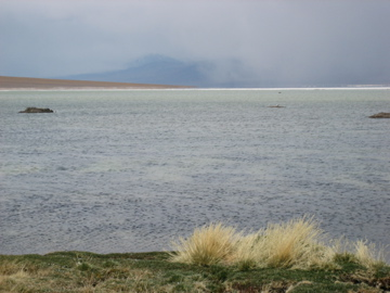 It shows the Laguna Santa Rosa, in northern Chile, part of the Nevado Tres Cruces National Park.